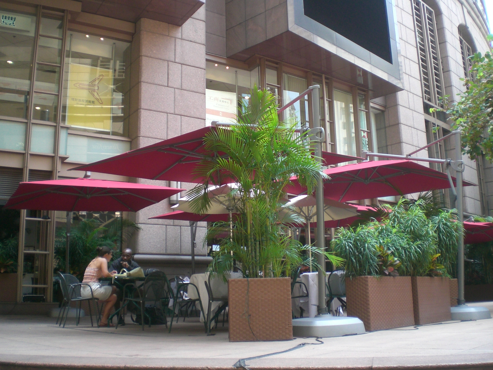 中環 新紀元廣場 露天茶座